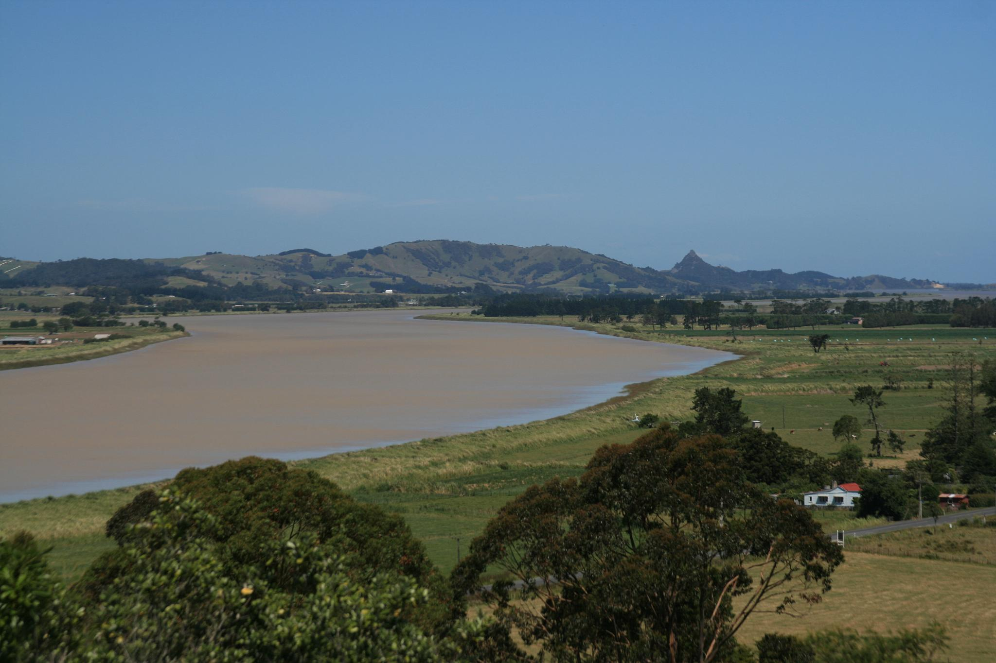 Wairoa River near Dargaville, North Island, New Zealand